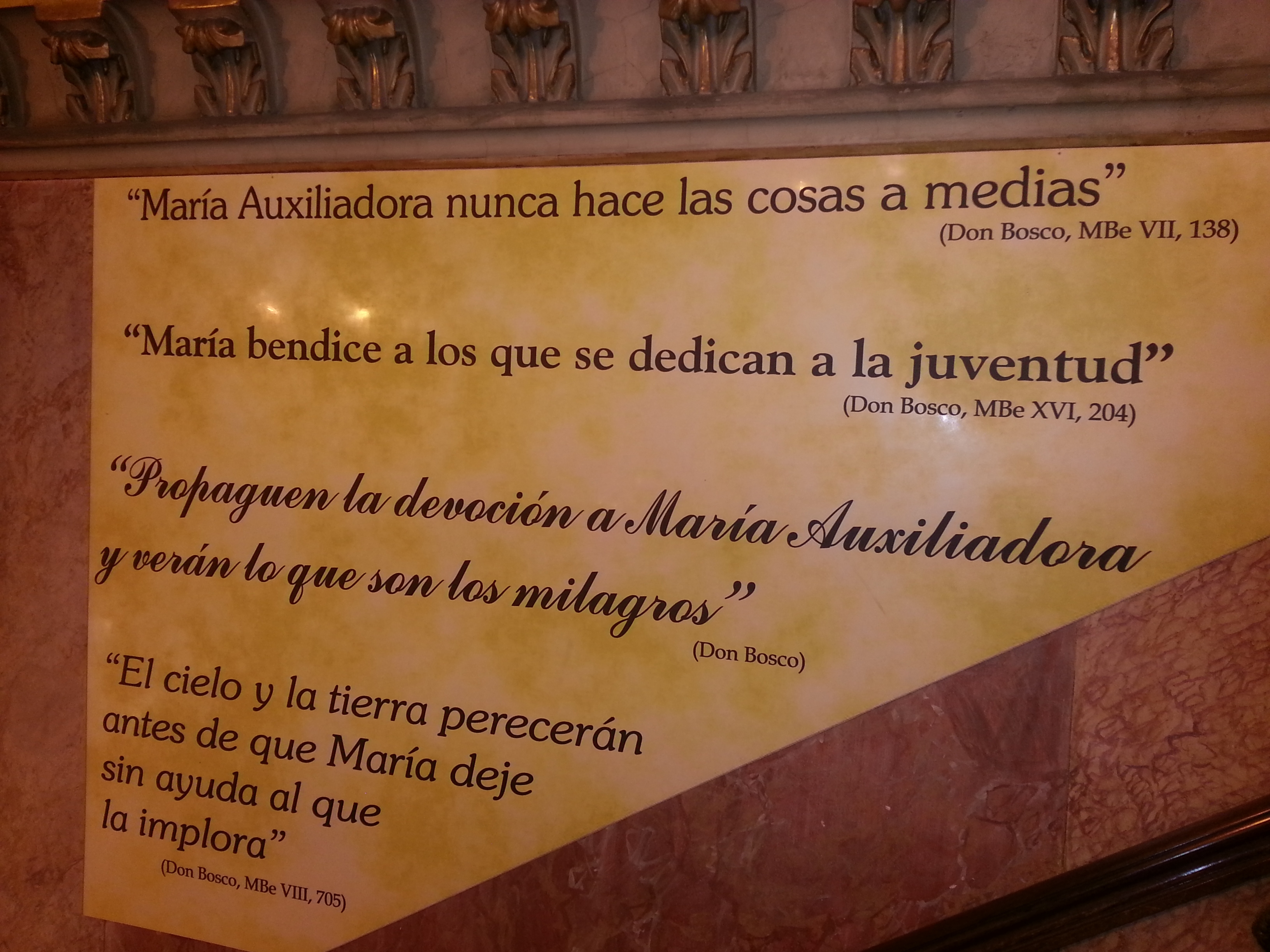 Inscriptions on the wall of the stairway leading to the chapel of the Virgin. Basilica Mary Help of Christians and Saint Charles Borromeo, Buenos Aires, Argentina.